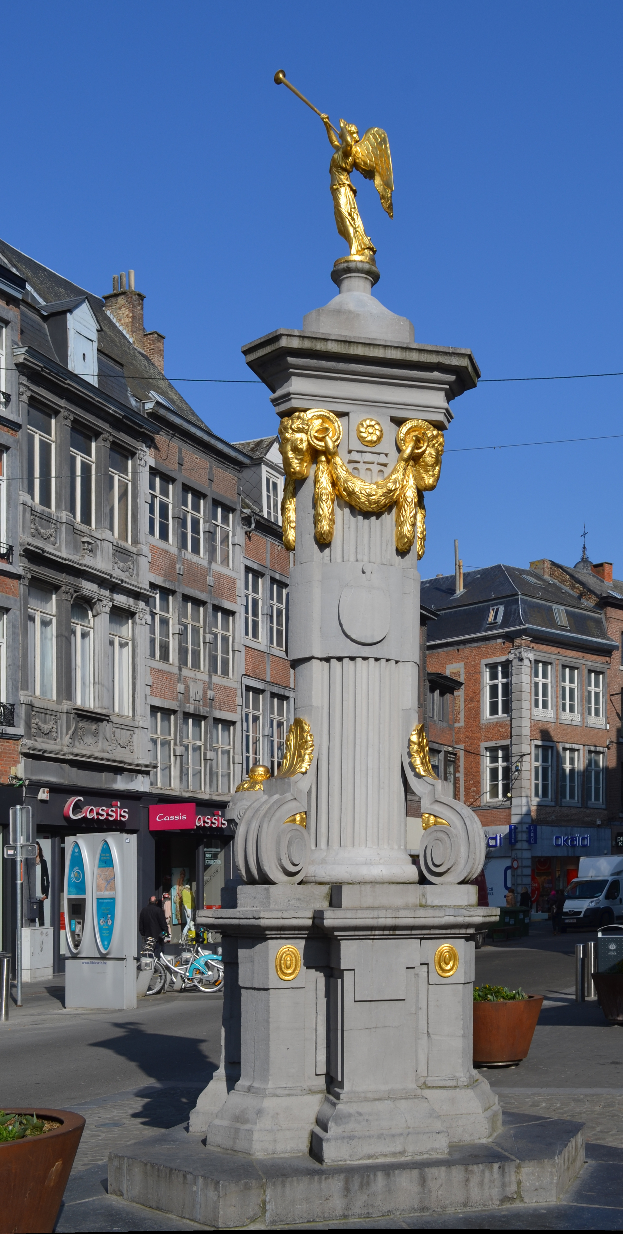 Namur (Belgium) - Pump on the Angel Square. Work of François-Joseph Denis (1749-1832) made in 1791